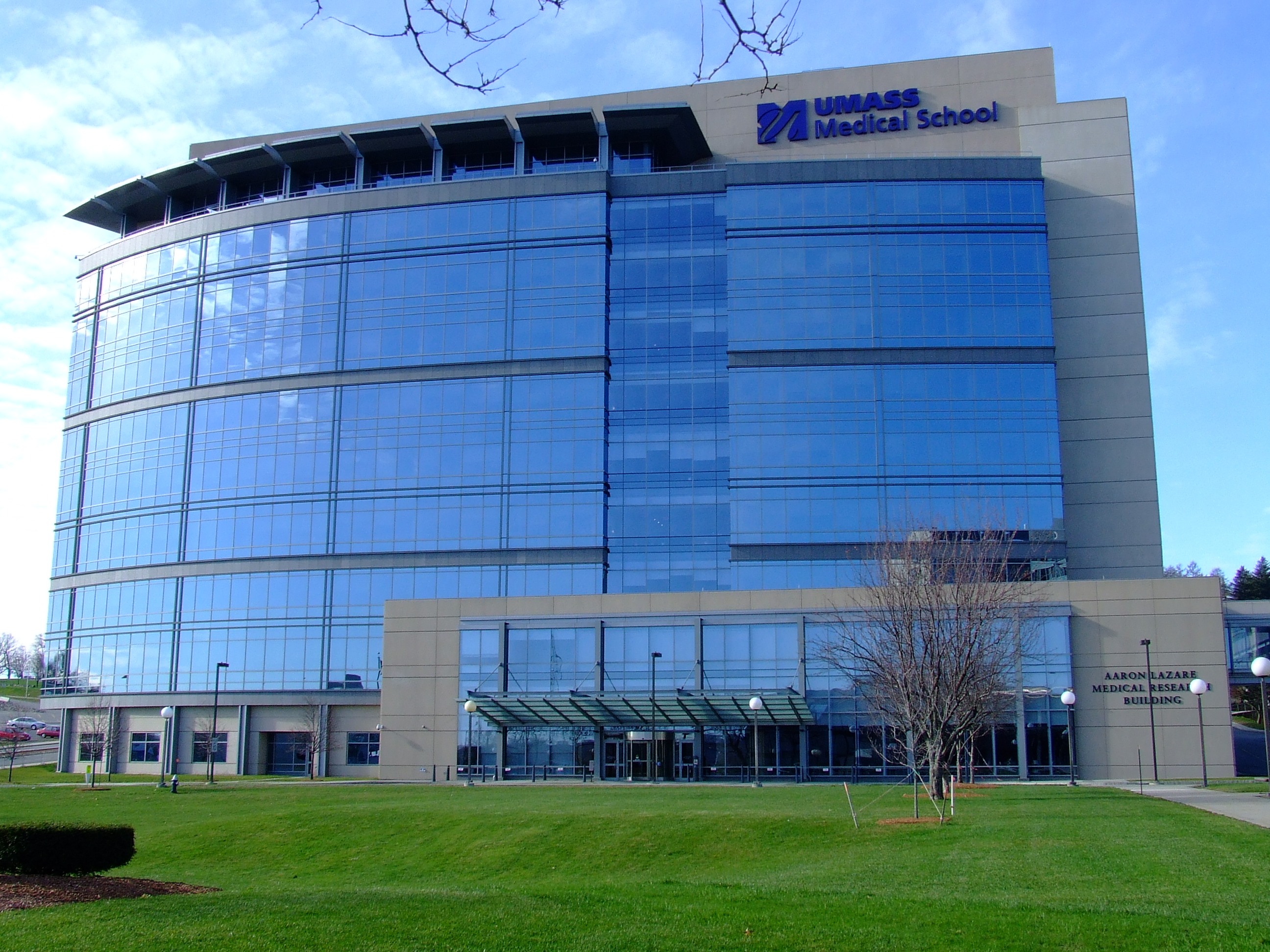 University of Massachusetts Medical School, Worcester, MA; Aaron Lazare Medical Research Building, front.